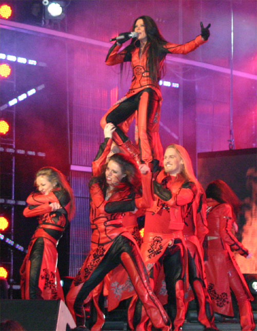 Ruslana at German Eurovision national selection, Hamburg, Germany